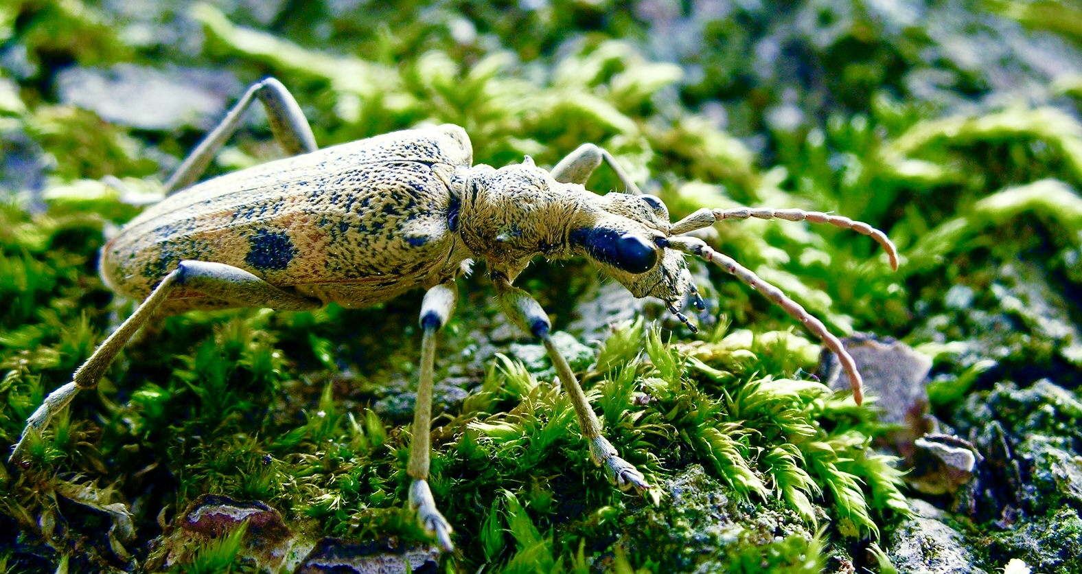 A longhorn beetle on a mossy tree trunk